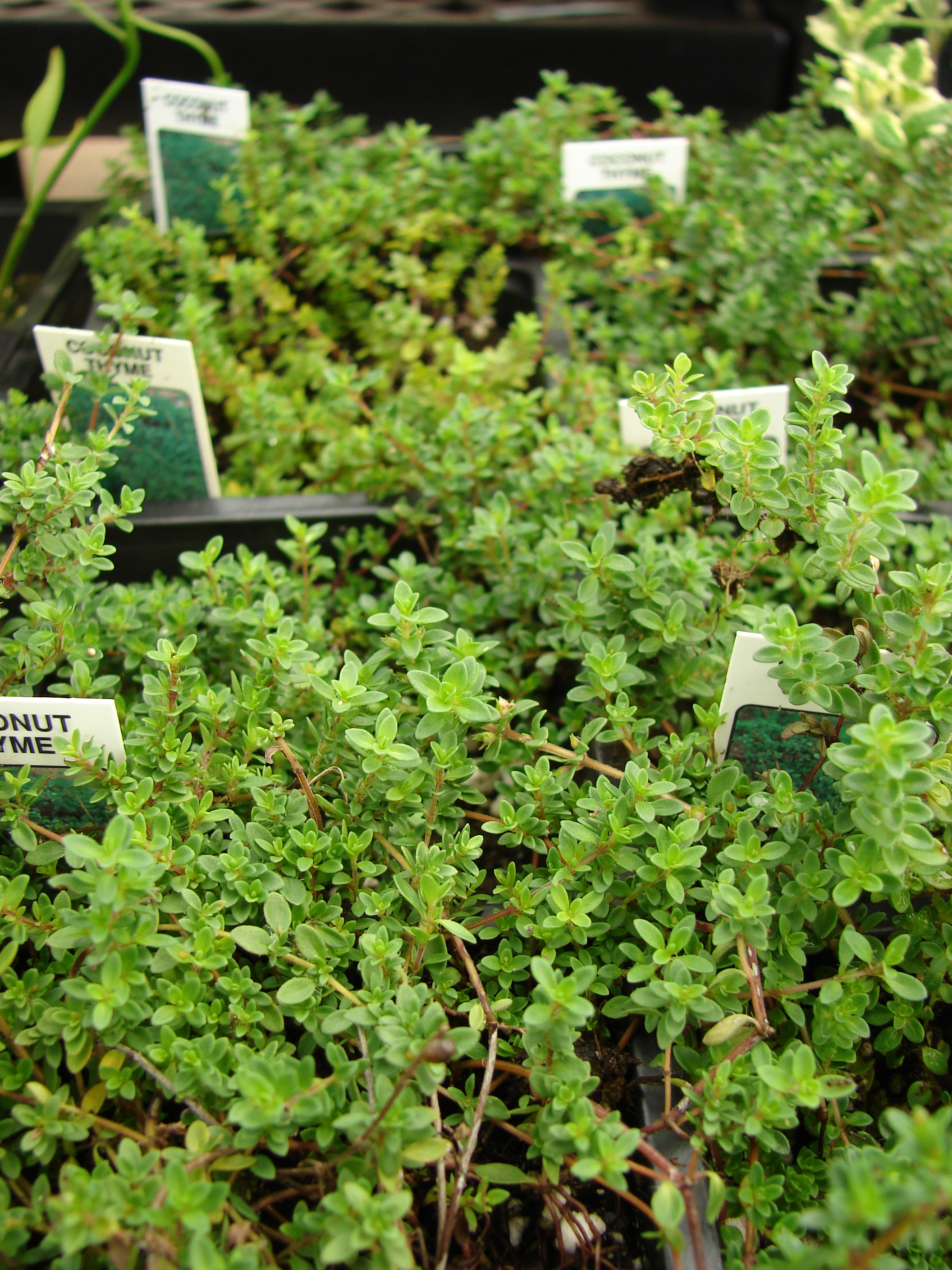 Thymus praecox subsp. arcticus (habit). Location: Maui, Walmart Kahului